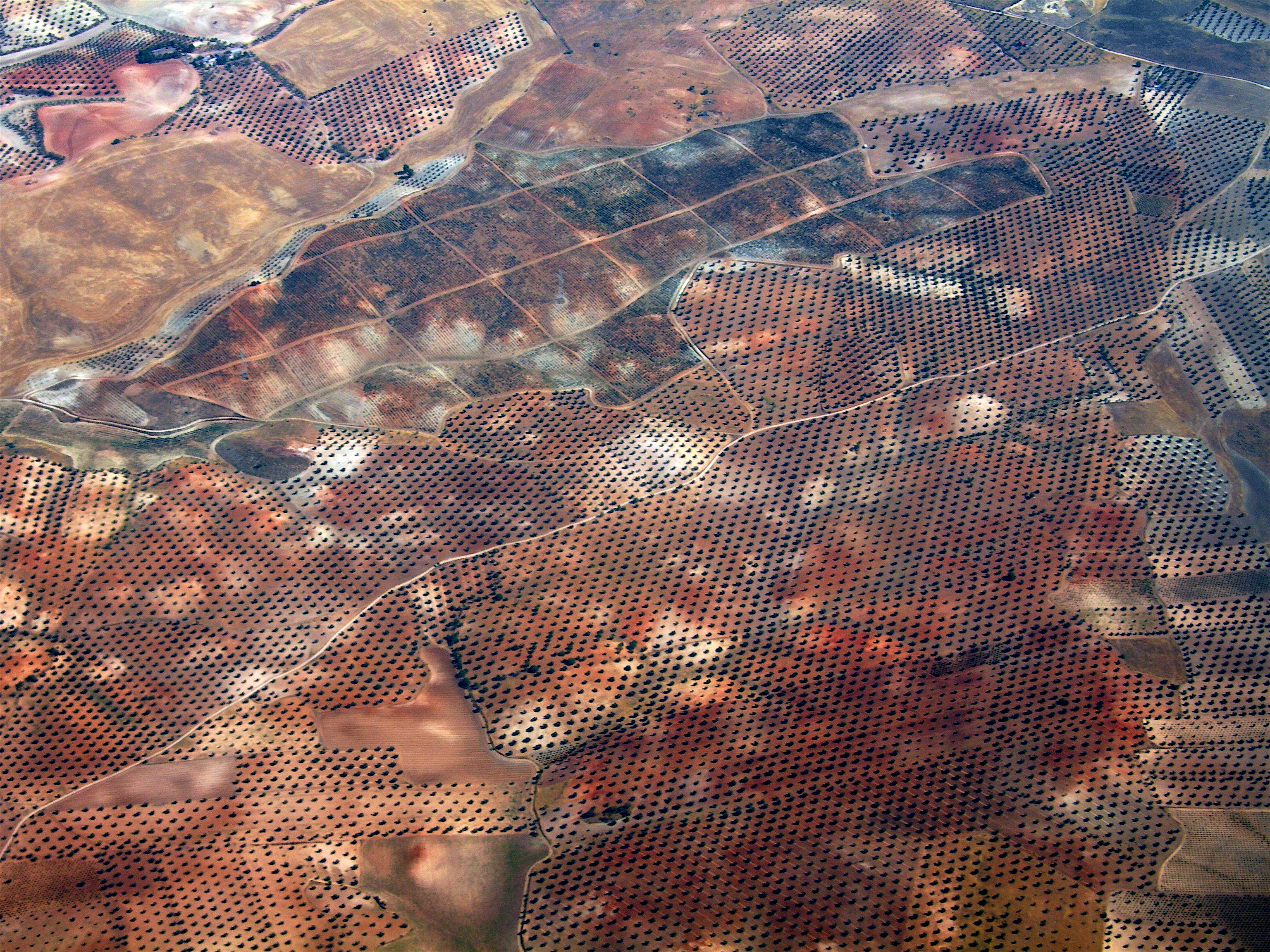 Olive groves in south-easten Community of Madrid (Spain).